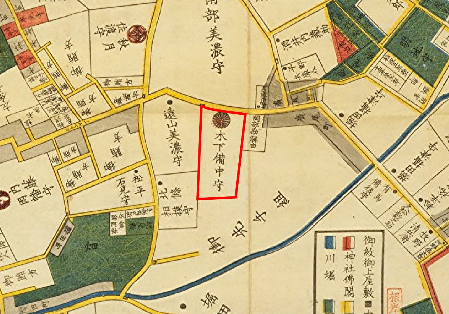 Residence of Asamori-Kinoshita clan at Edo